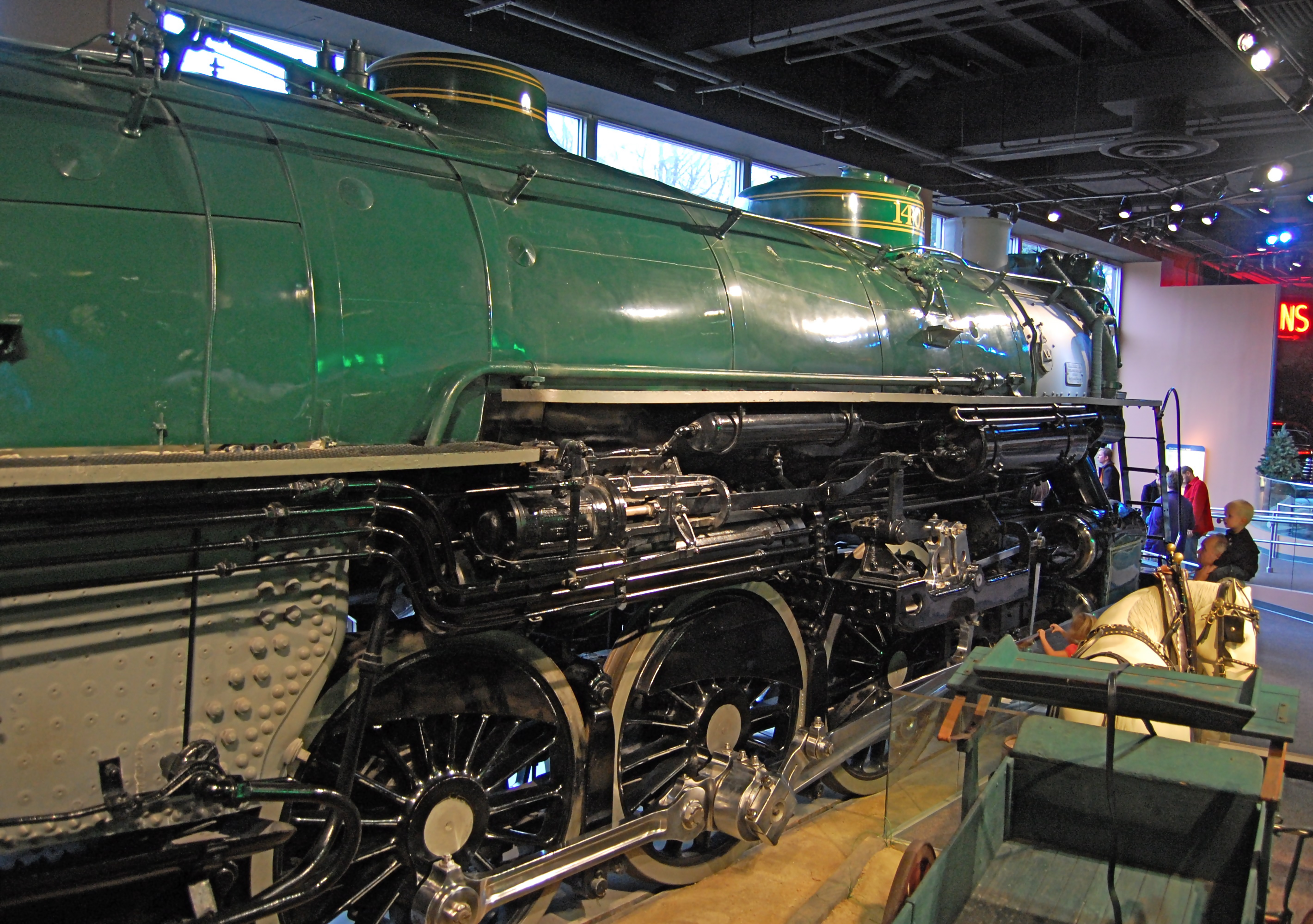 Children study a steam locomotive, Southern Railway 1401 seen in the National Museum of American History in Washington, DC. (web site as of January 2009)